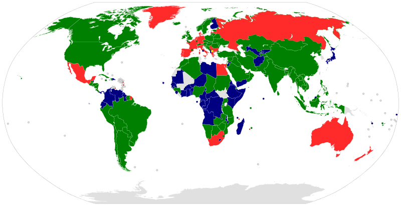 Recognition: Red - FYROM (Former Yugoslav Republic Of Macedonia) Green - ROM (Republic Of Macedonia) for bilateral use Blue - Unknown Gray - No diplomatic relations